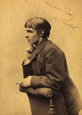 Danish writer Herman Bang. Portrait 1880.